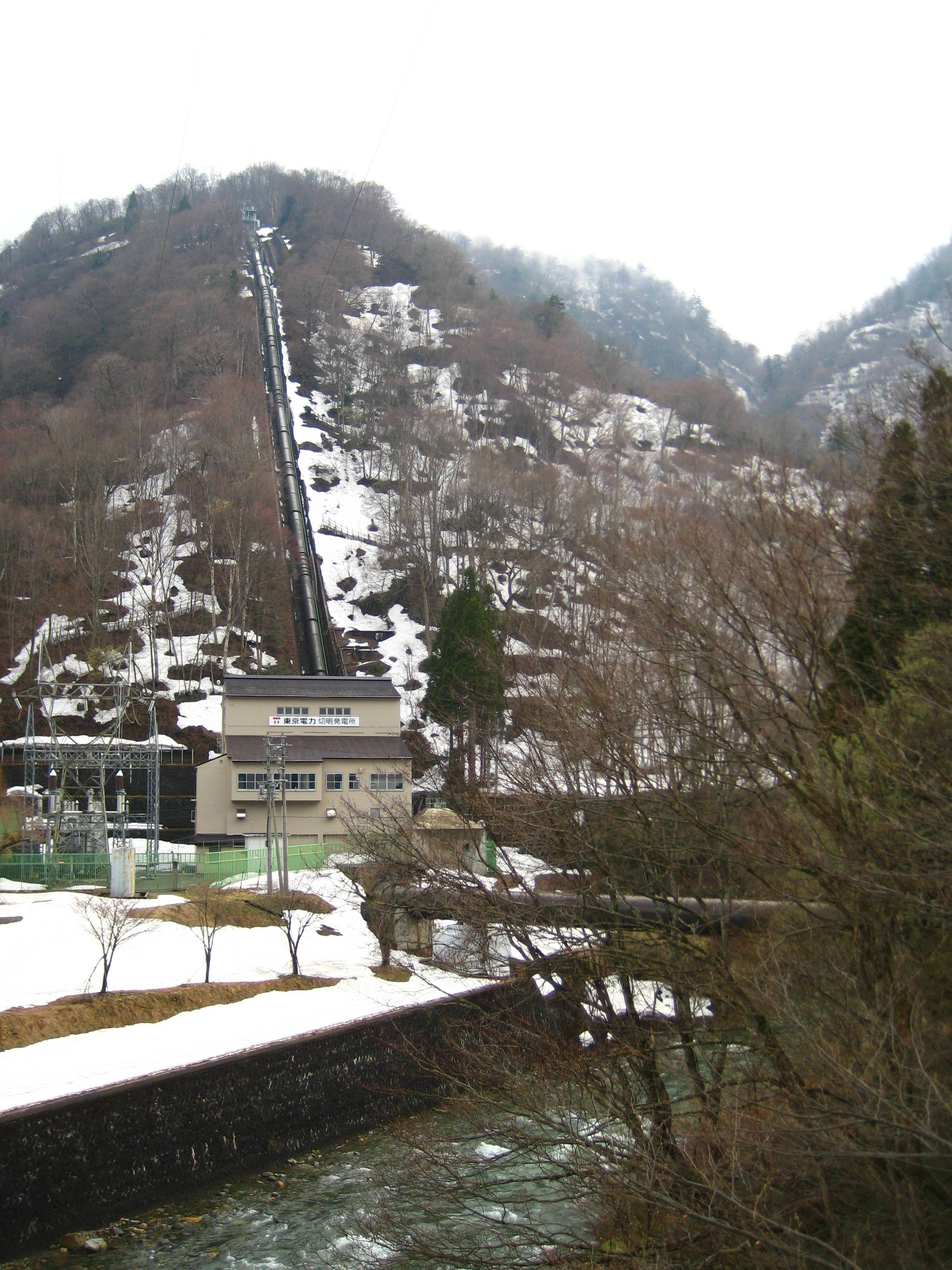 Kiriake power station.